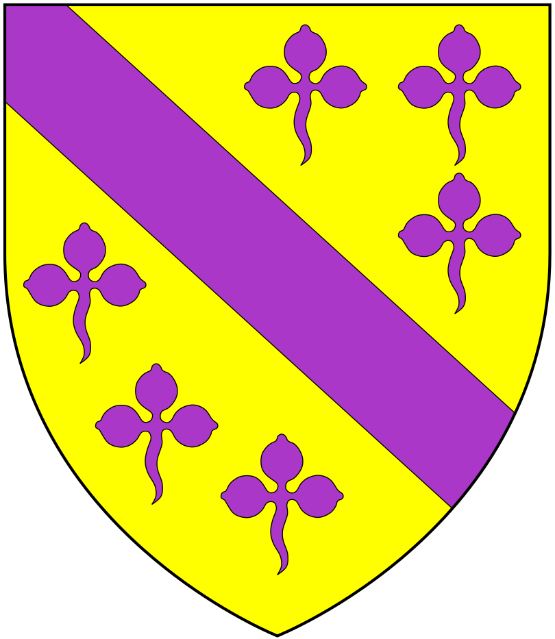 Arms of Hakewill of Exeter, Devon: Or, a bend between six trefoils slipped purpure (Vivian, Lt.Col. J.L., (Ed.) The Visitations of the County of Devon: Comprising the Heralds' Visitations of 1531, 1564 & 1620, Exeter, 1895, p.437).